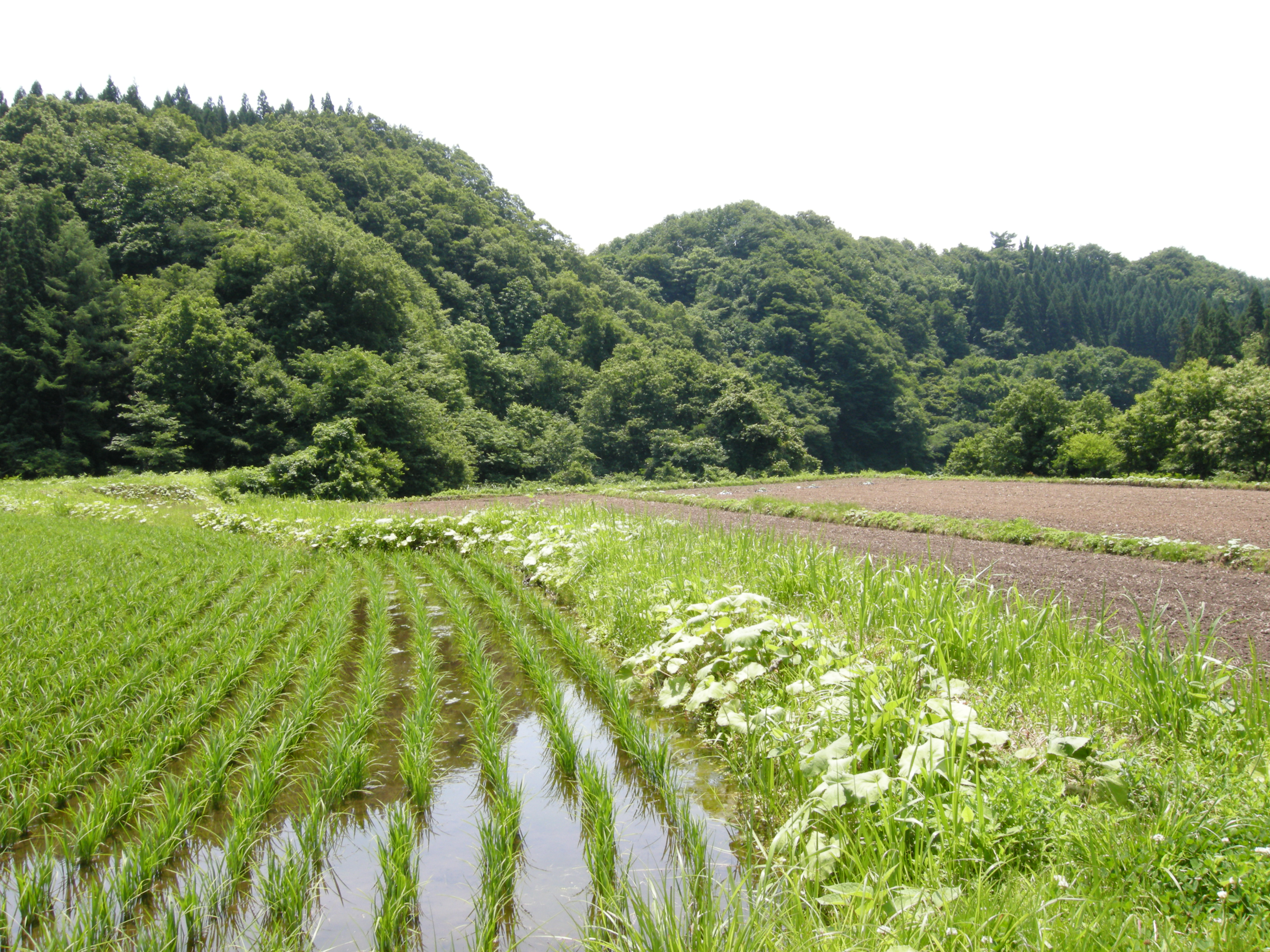 Paddy Fields in Sakegawa, Yamagata